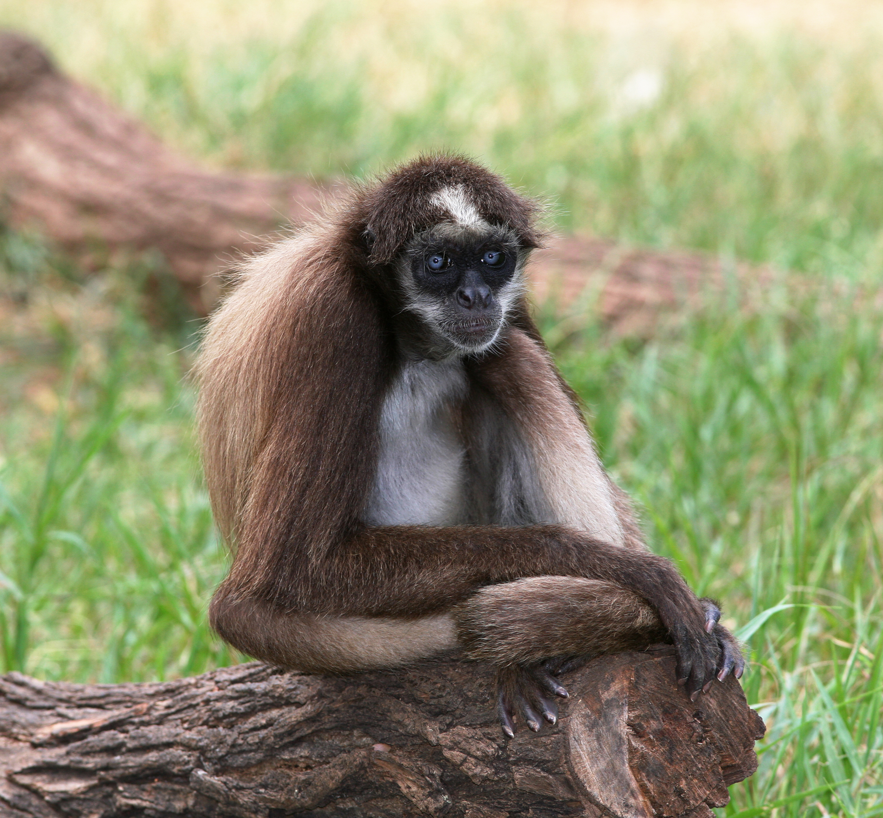 A critically endangered Brown Spider Monkey, Ateles hybridus, with uncommon blue eyes. Shot in captivity in Barquisimeto, Venezuela